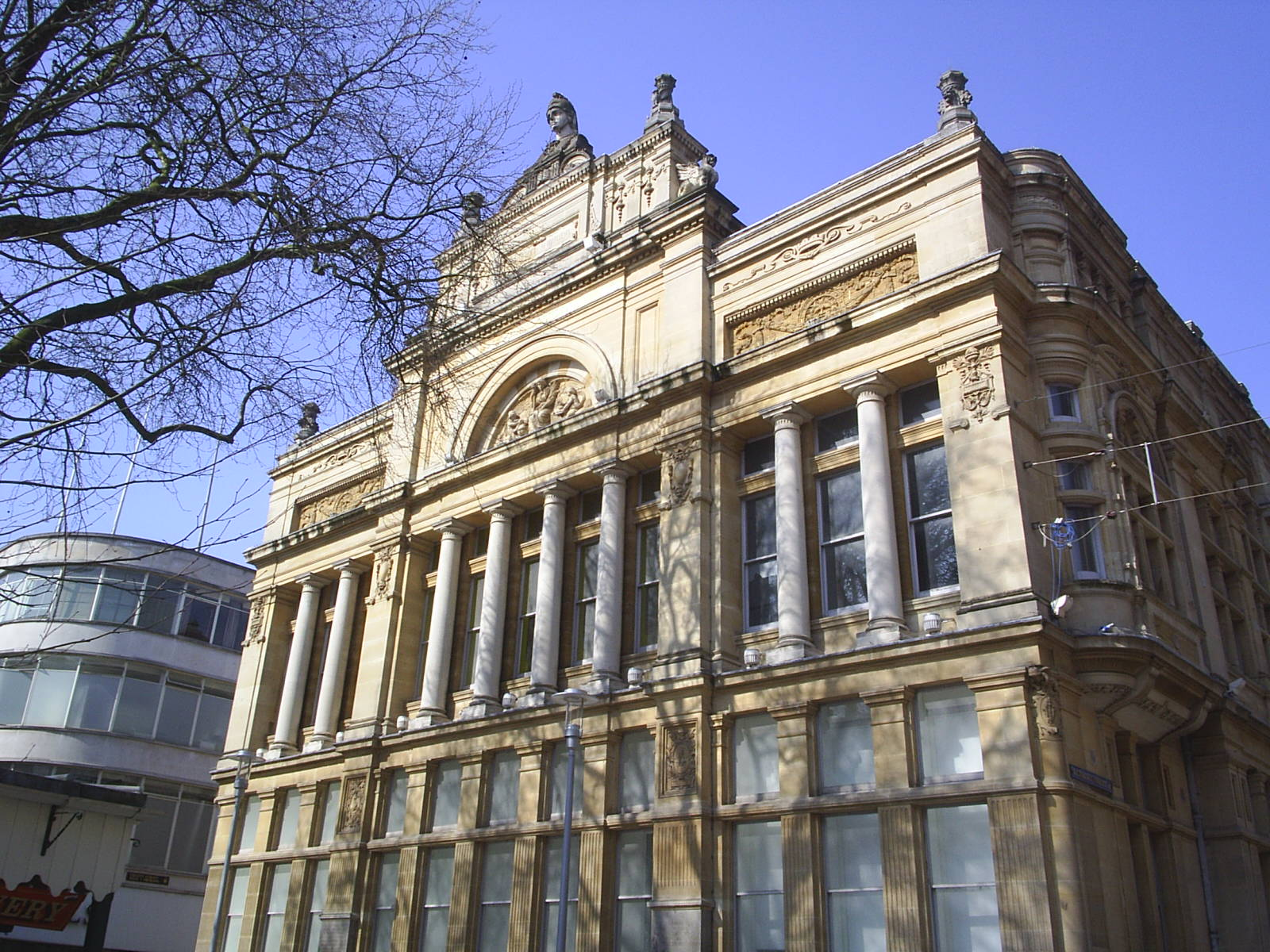 The south face of Cardiff's Old Library